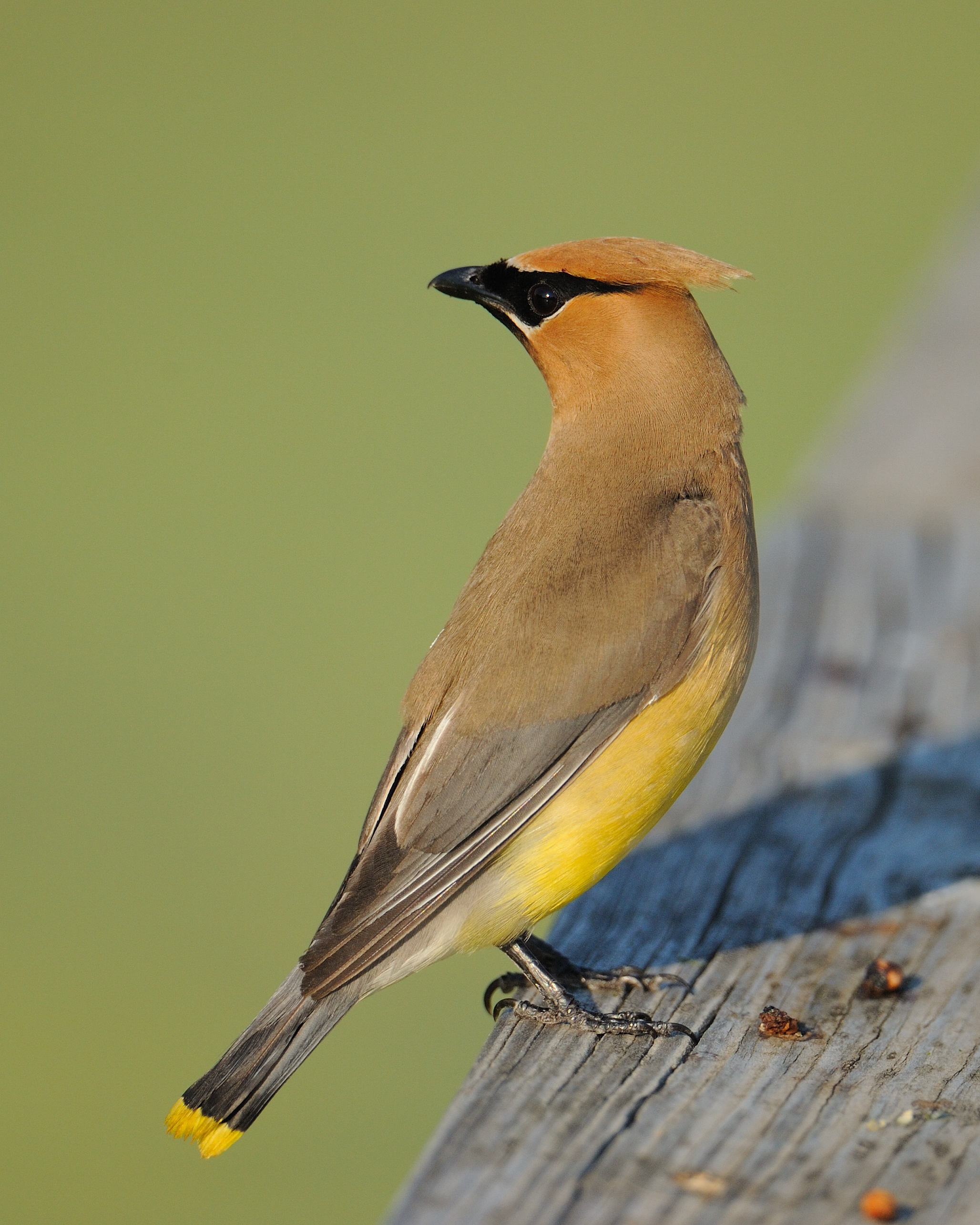 Cedar Waxwing (Bombycilla cedrorum) - Rollins Savanna, Lake County Forest Preserve District, near Grayslake, IL - 16 August 2011